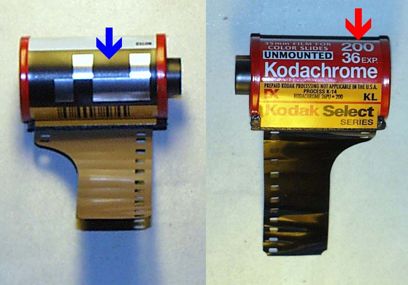 Author: Ralf Roletschek (User:Marcela)